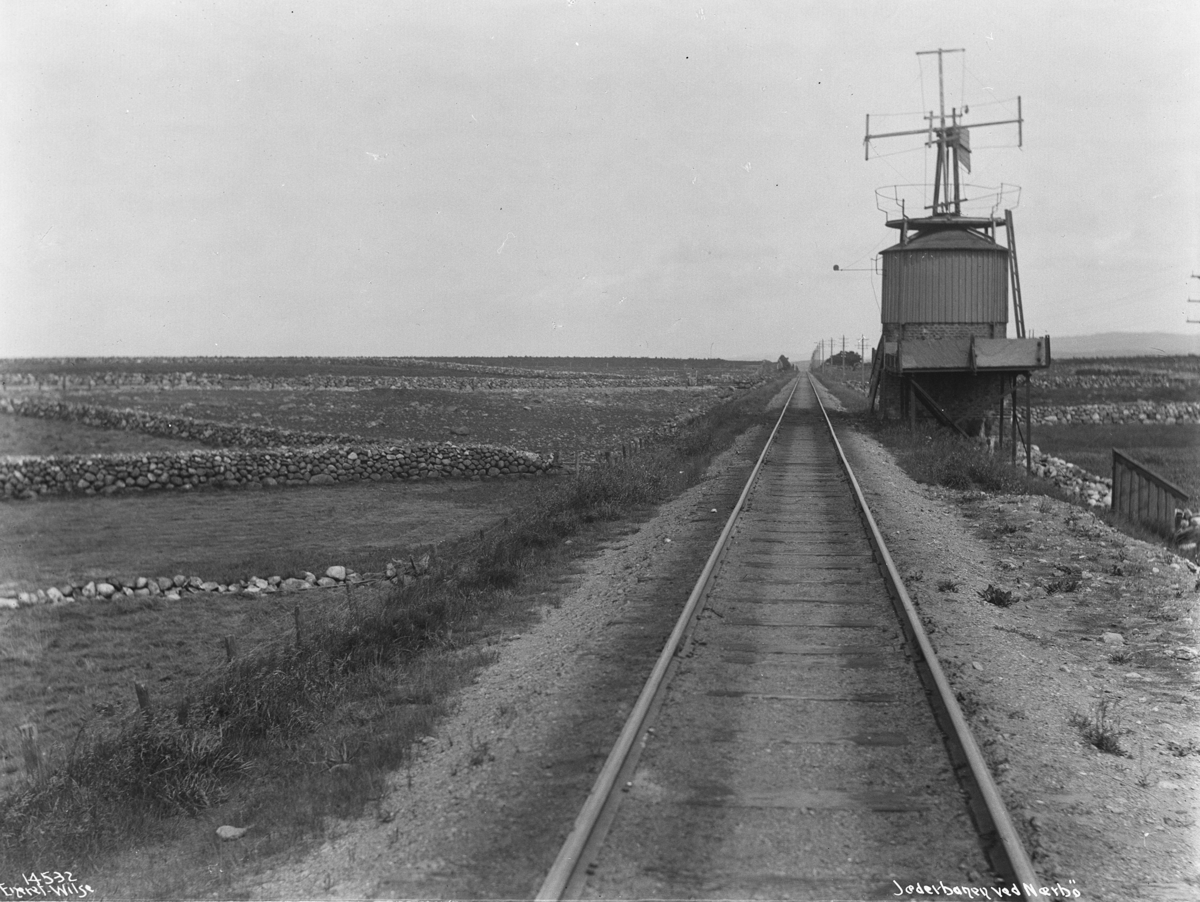 The Jæren Line and a windmill at Hå in Nærbø, Norway